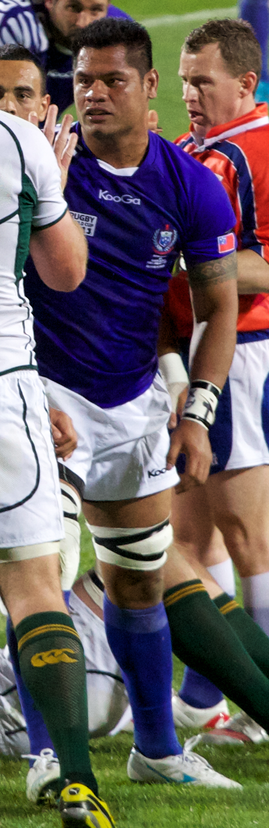 Samoan rugby union player George Stowers during 2011 Rugby World Cup match against South Africa.